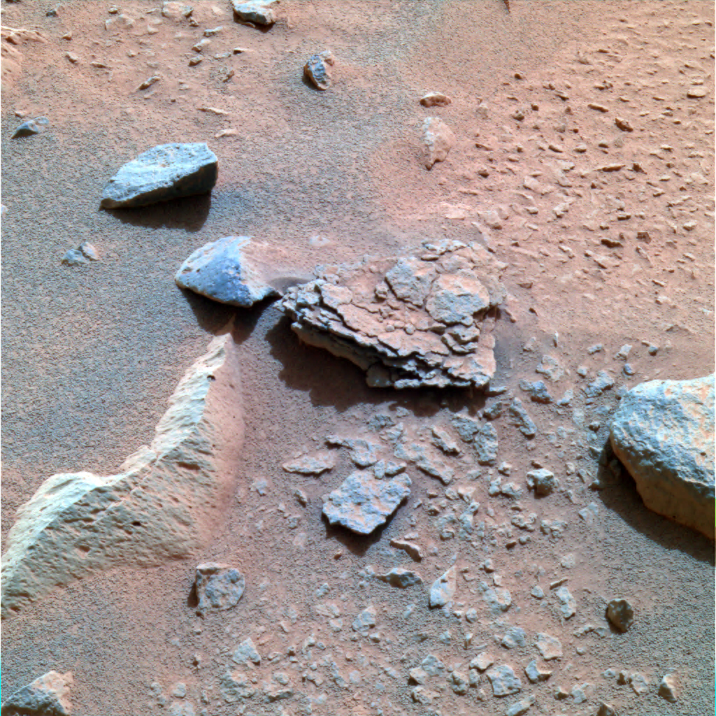 Flaky "Mimi" - This color image taken by the Mars Exploration Rover Spirit's panoramic camera on Sol 40 is centered on an unusually flaky rock called Mimi. Mimi is only one of many features in the area known as "Stone Council," but looks very different from any rock that scientists have seen at the Gusev crater site so far. Mimi's flaky appearance leads scientists to a number of hypotheses. Mimi could have been subjected to pressure either through burial or impact, or may have once been a dune that was cemented into flaky layers, a process that sometimes involves the action of water.